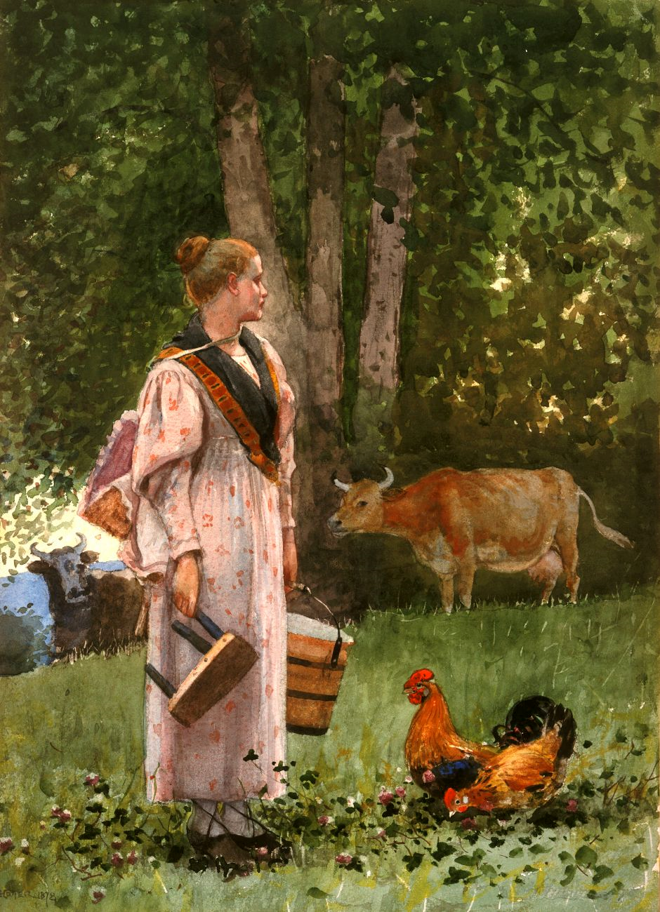 Watercolor over graphite on paper